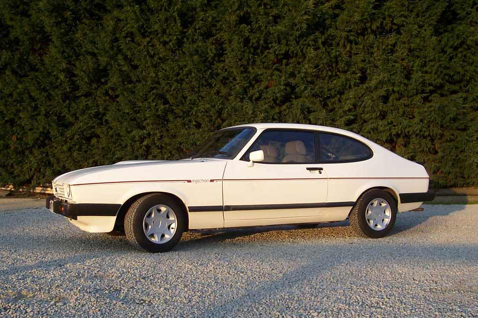 1985 Ford Capri III 2.8 Injection Special, photographed in France.